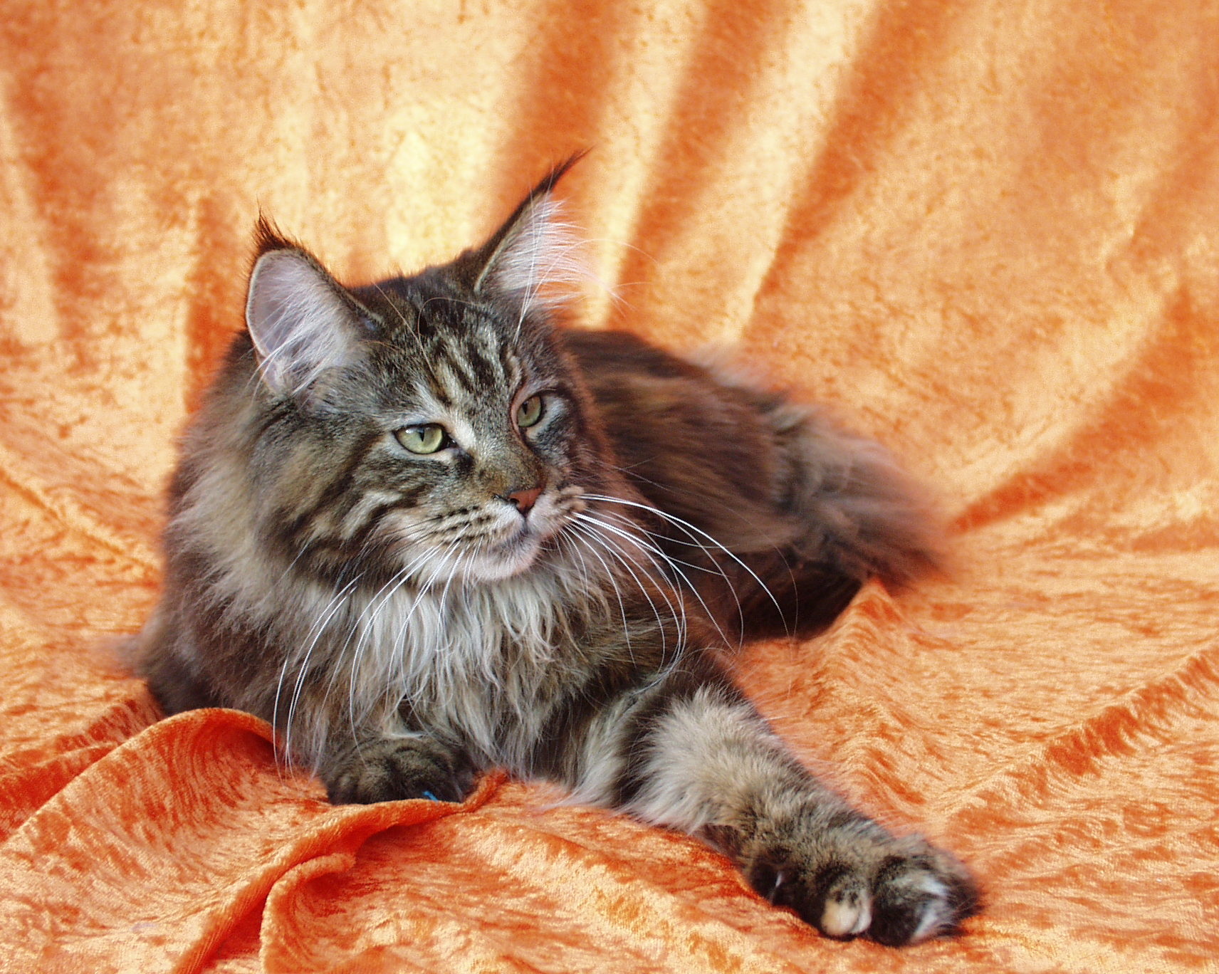 a very typey female Maine Coon in black(brown)tabby; FIFe-EMS-Code n 22